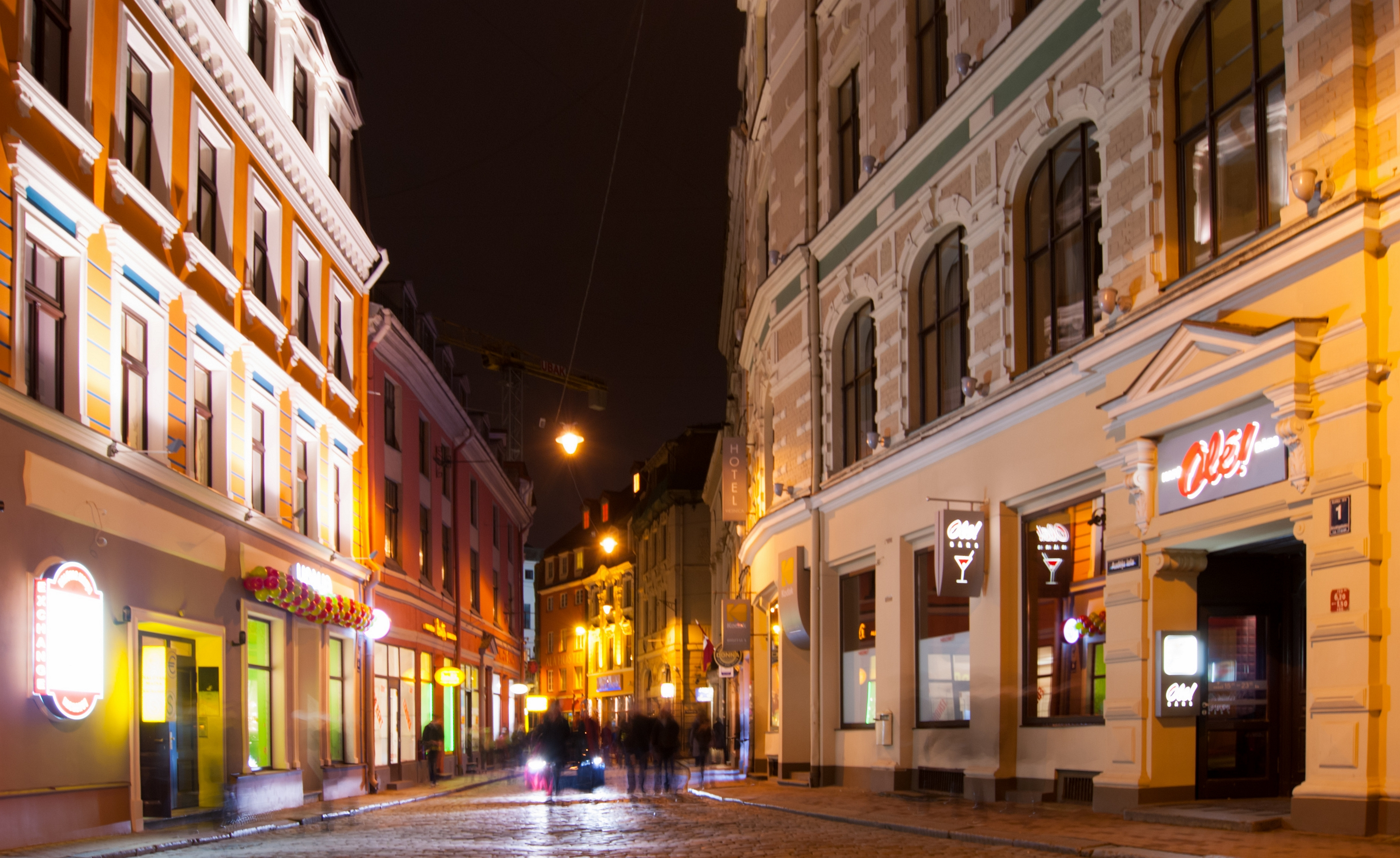 Night scene in Riga